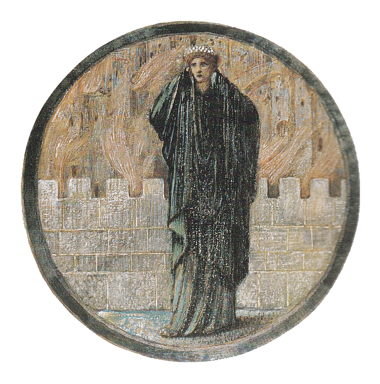 Helen's Tears. Original painting in watercolour, bodycolour, and gold, reproduced as plate xxvi in The Flower Book, published posthumously (1905) by the painter's wife in a limited edition of 300.